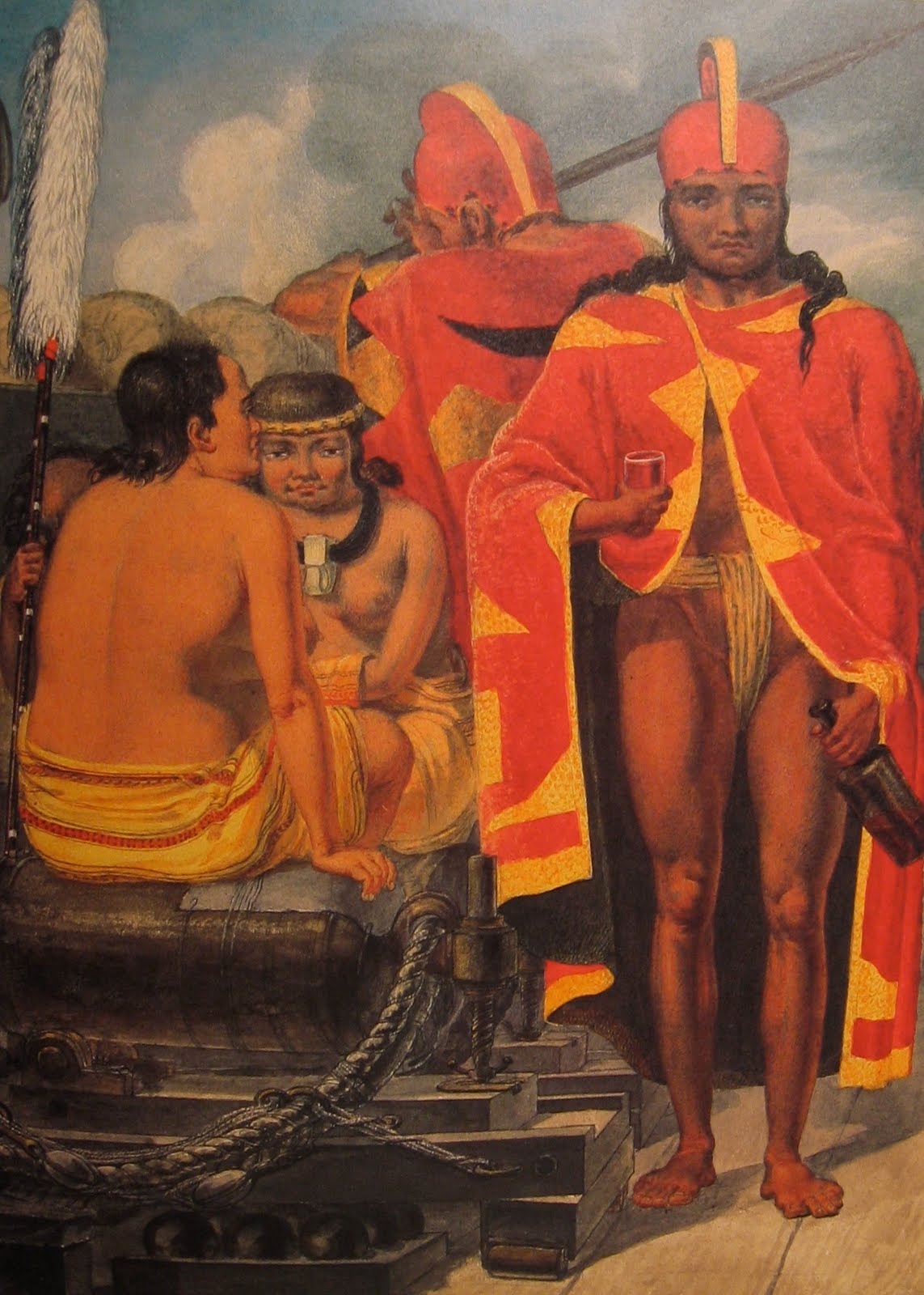 Boki and Hekili on the Sloop Kamchatka (Forbes 1992, p. 64) or Chiefs of Oahu, Visiting Sloop Kamchatka (Barratt 1988, p. 131) Painting of Boki and Kahekili Keeaumoku II with two unidentify chiefess on the sloop Kamchatka in 1818 by Mikhail Tikhanov.